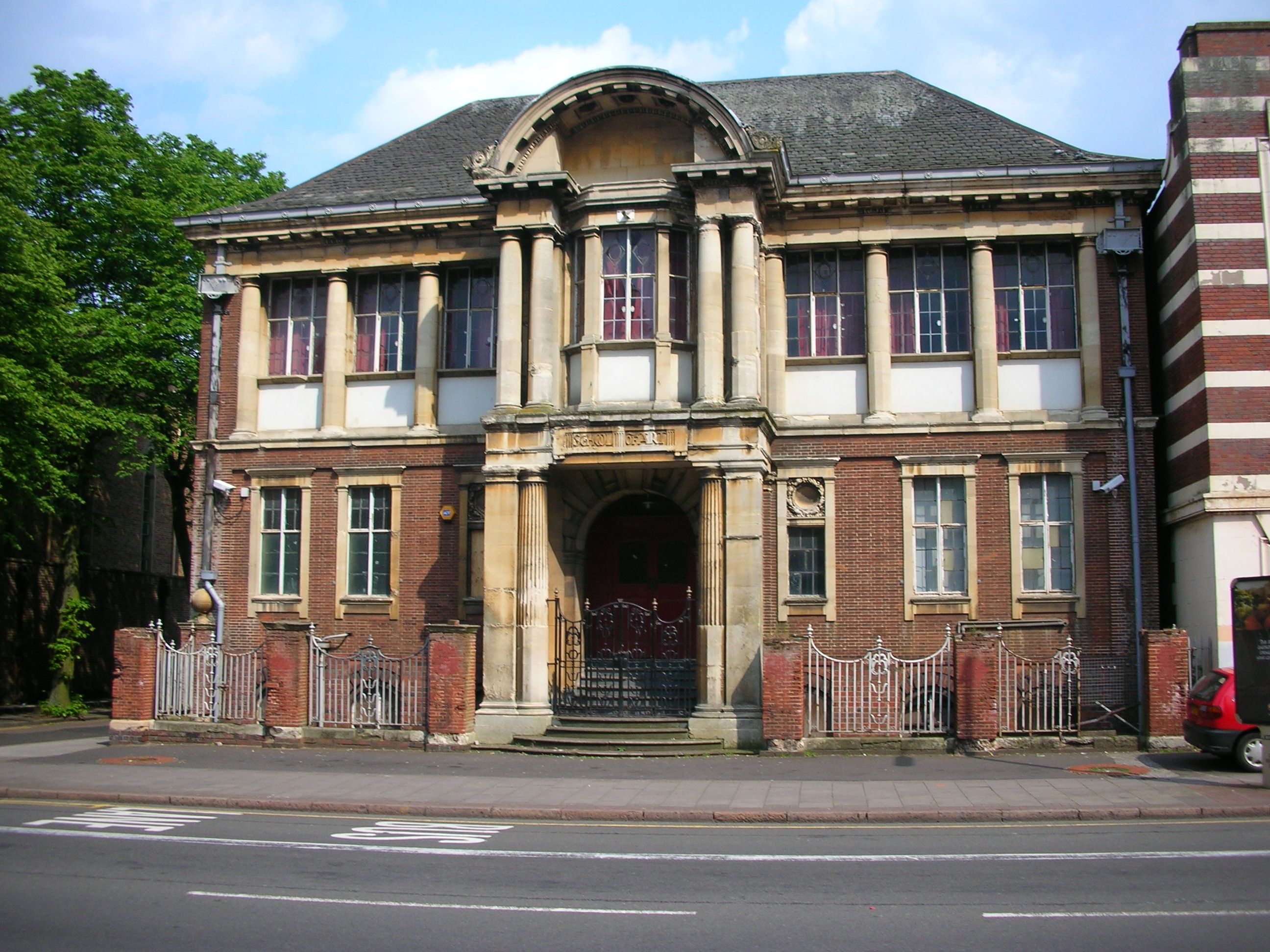 The College of Art, 500 Moseley Road, Balsall Heath, Birmingham, England. Photographed by me.